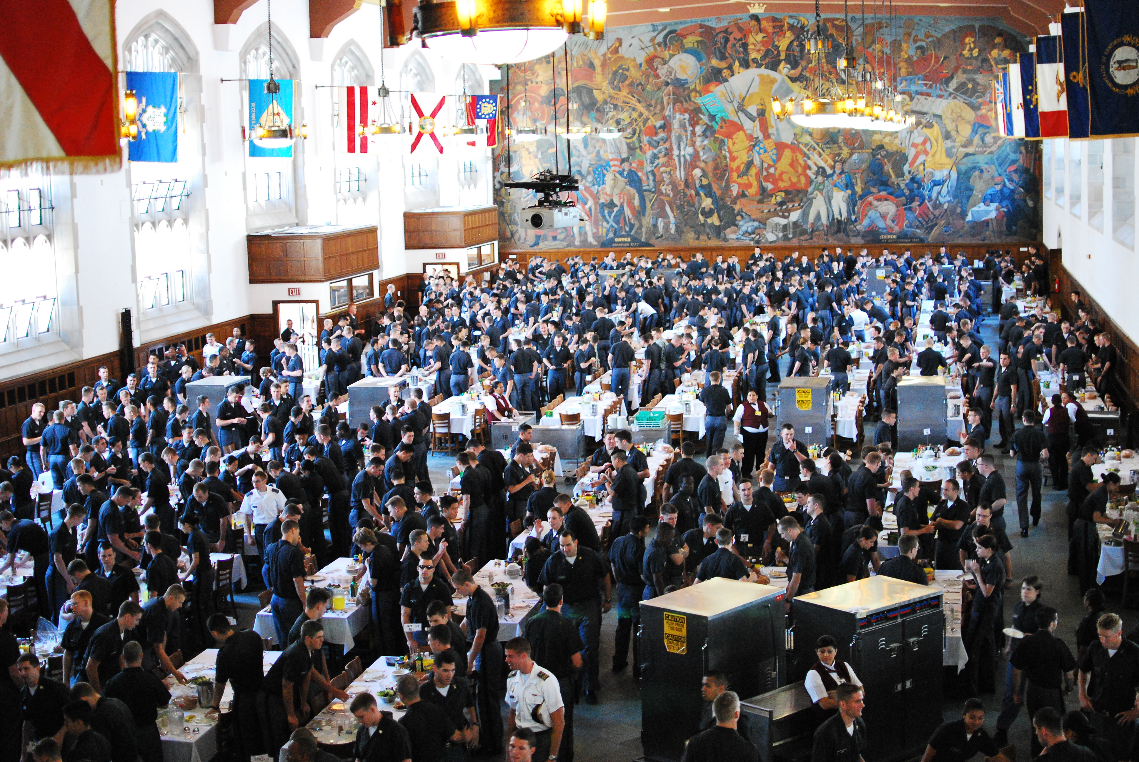 The "Mural Wing" of Washington Hall, the Cadet Mess Hall at the United States Military Academy at West Point, NY during lunchtime. All 4000+ cadets dine together family style at the exact same time every day for breakfast and lunch.